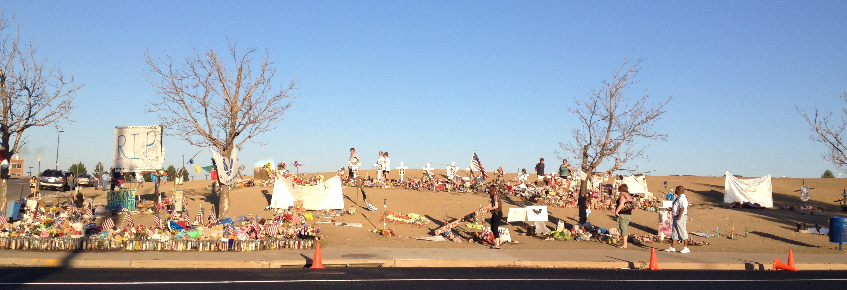 This is across the street from the Century movie theater in Aurora CO. taken about 2 months after the shooting occurred.